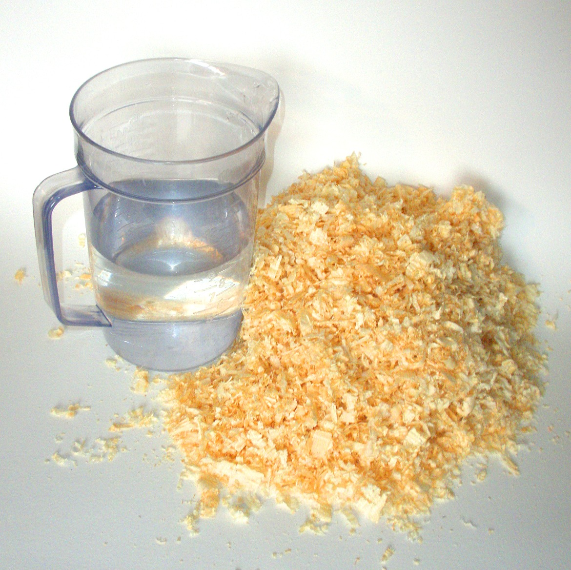 Water and saw dust in proportions to make Pykrete